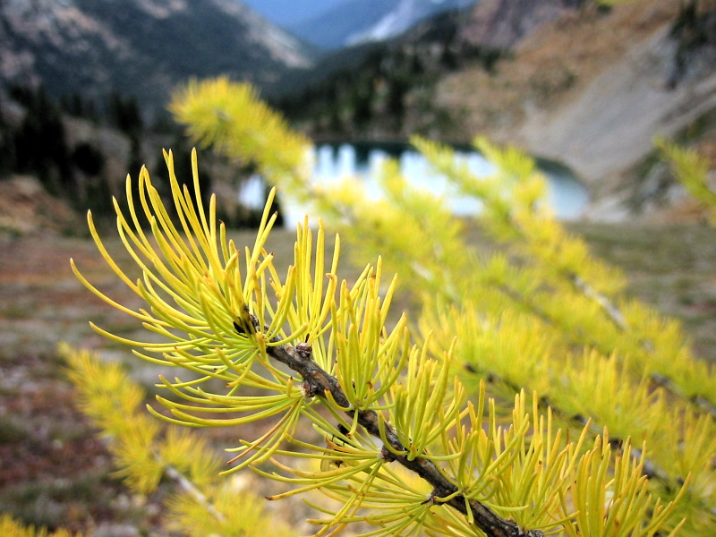 Subalpine Larch (Larix lyallii) fall foliage with Sprite Lake behind. Photo taken 0.2 km west of Sprite Lake, towards the east, at 6,200 feet (1,900 m) elevation. The lake is in the Wenatchee Mountains, an eastern spur of the Cascade Range, located in Wenatchee National Forest, Washington, USA, about 21 km south of Stevens Pass